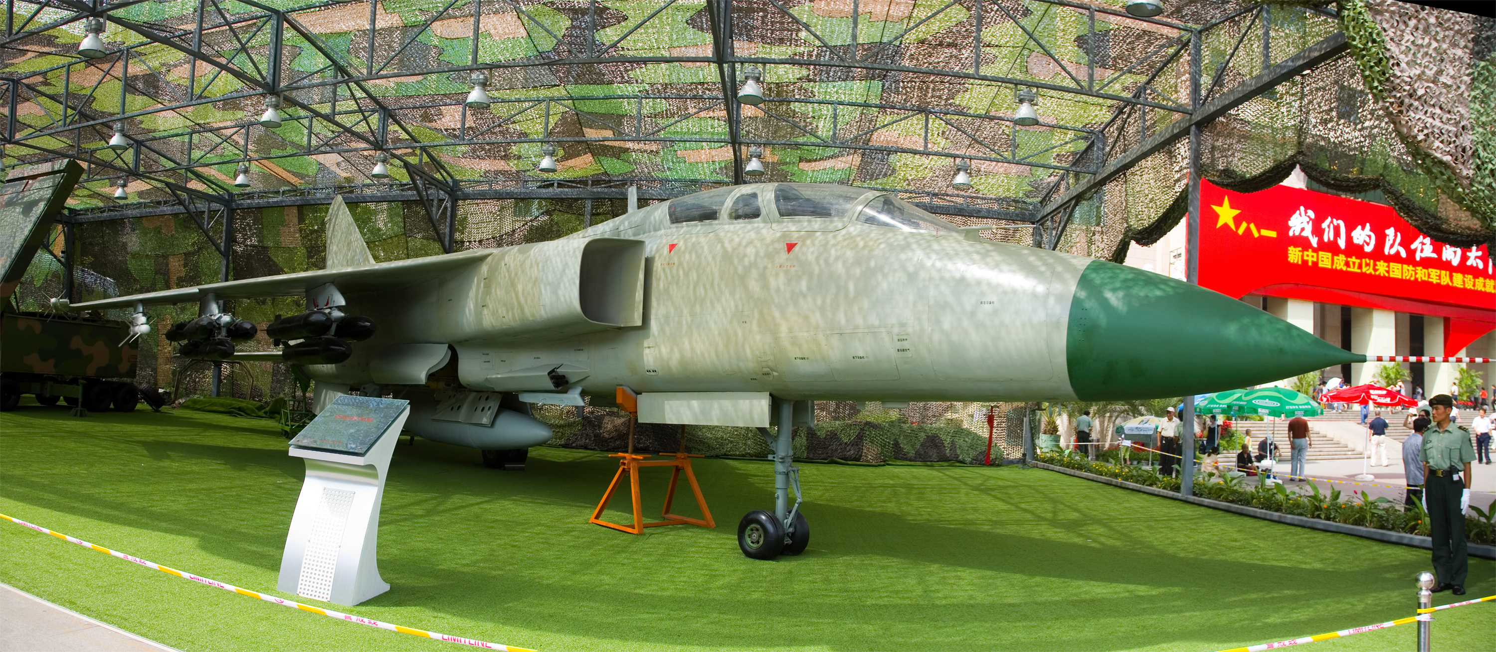 A Chinese JH-7A fighter/bomber at the Beijing Military Museum during the "Our troops towards the sky" exhibition